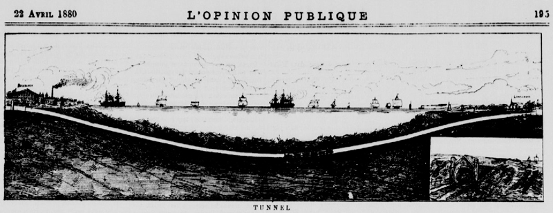 Projet de tunnel entre Montreal et la Rive-Sud publie dans L'opinion Publique.